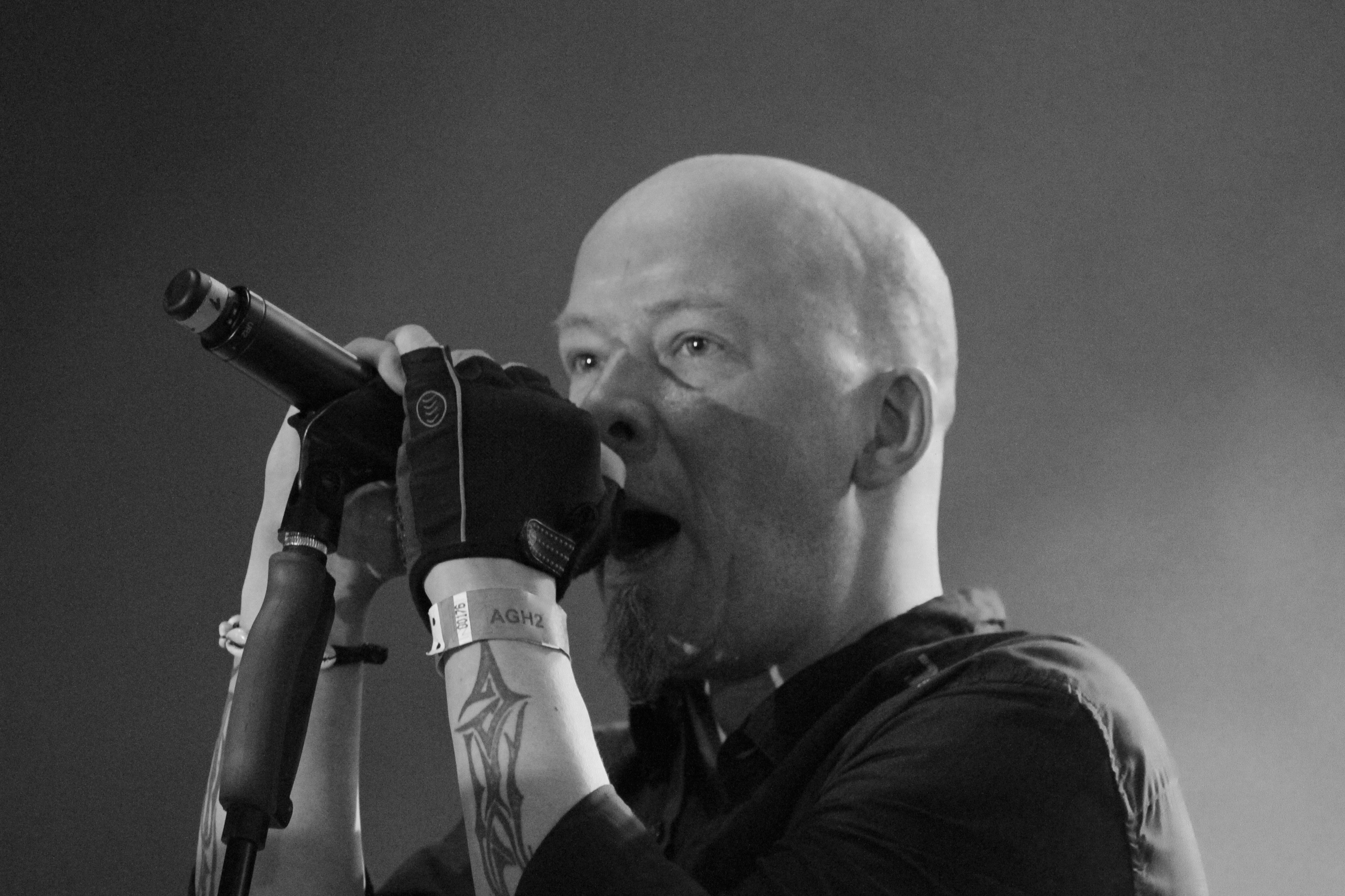 The Eternal Afflict at the Wave-Gotik-Treffen 2014. André Kampman (Cyan)